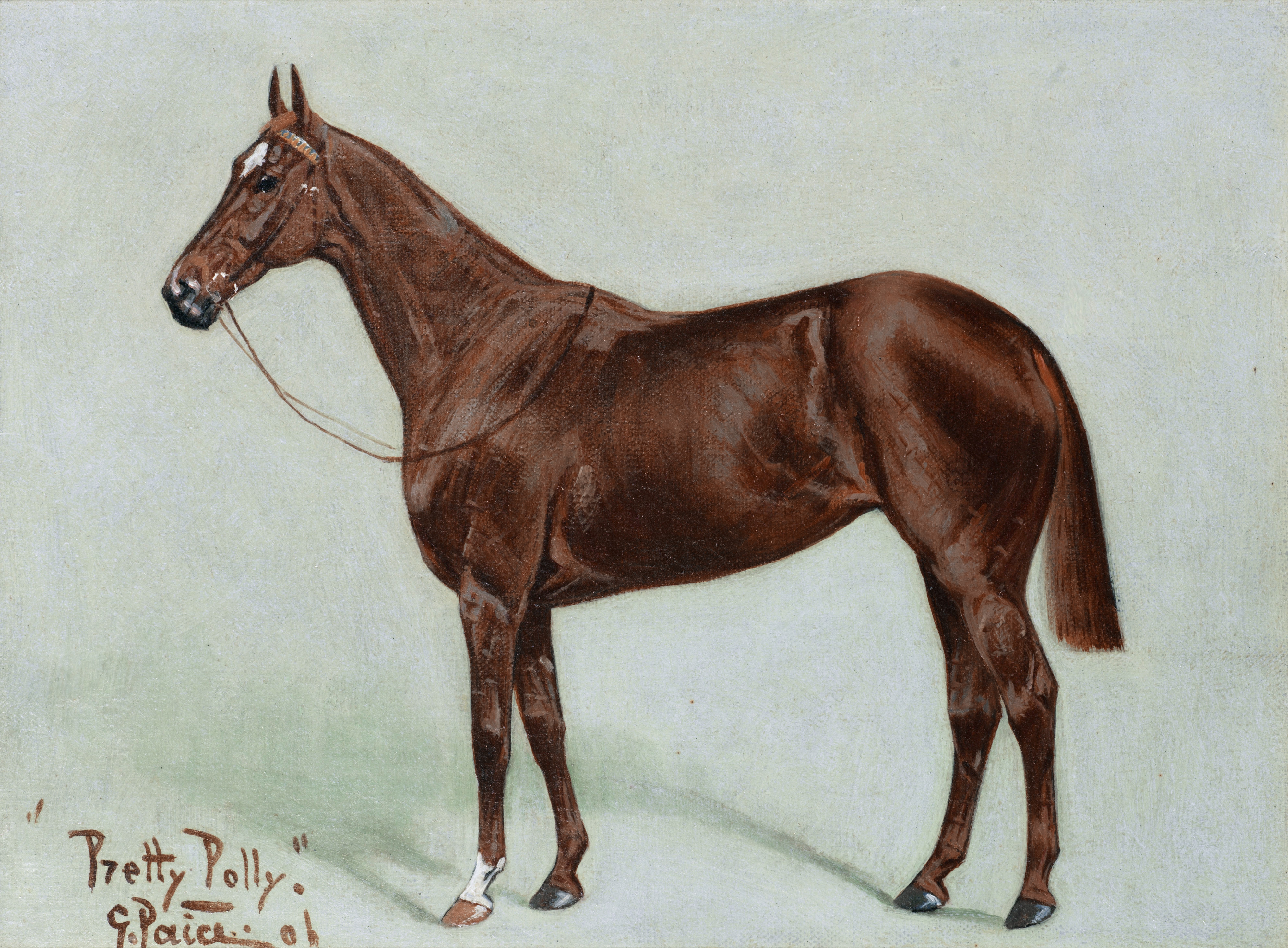 Pretty Polly oil on canvas 23 x 31 cm signed b.l.: "Pretty Polly." / G.Paice 06